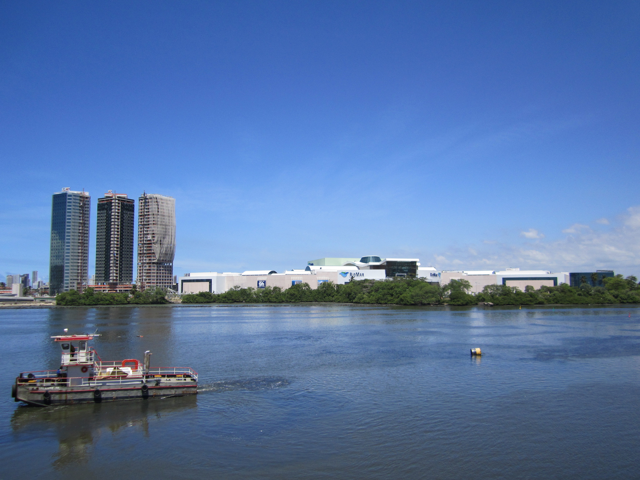 RioMar Shopping - Recife, Pernambuco, Brazil